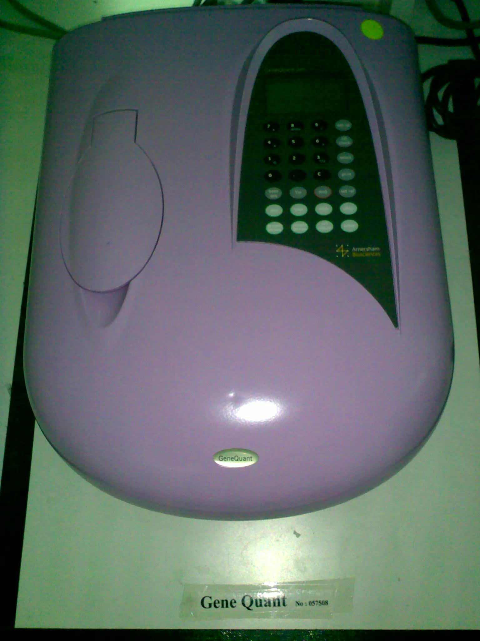 Gene Quant